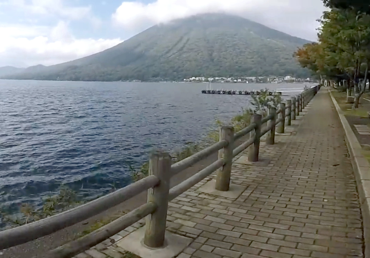 Japan: the Nantai volcano and Chūzenji lake in Nikkō (Tochigi prefecture).